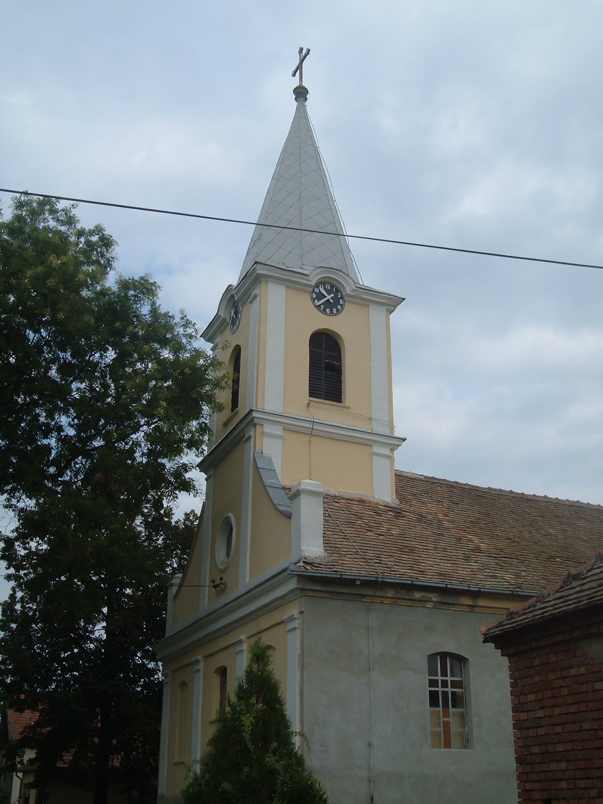 Konak village, Serbia, Catholic Church.